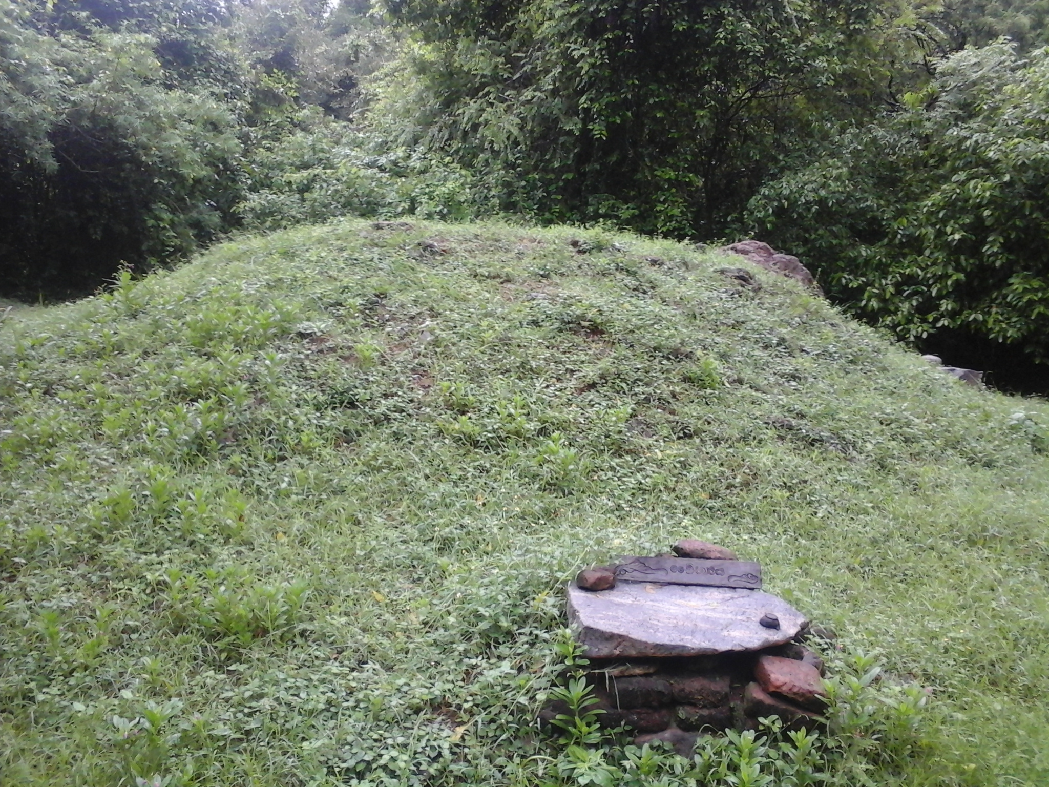 Gonagolla vihara, Ampara, Sri Lanka - Pagoda